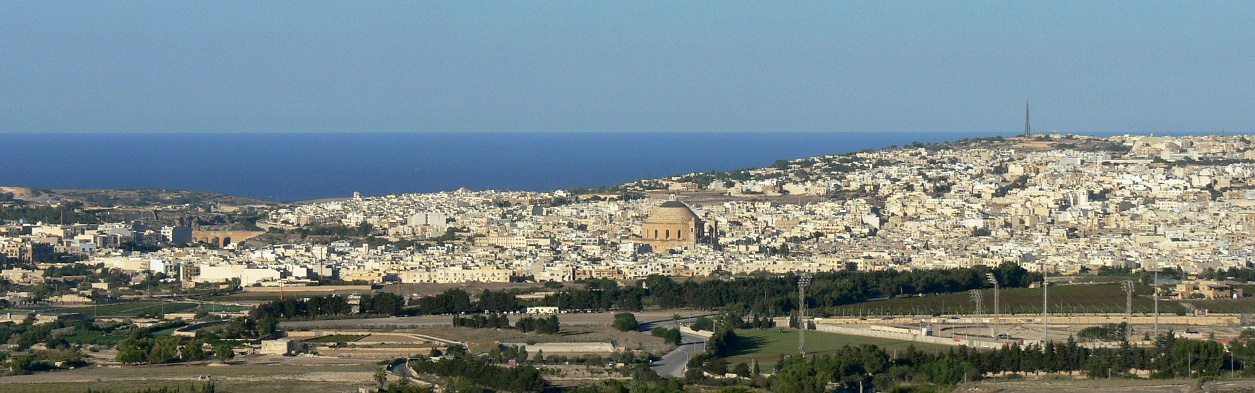 Panoramic view of Mosta, seen from Mdina, Malta